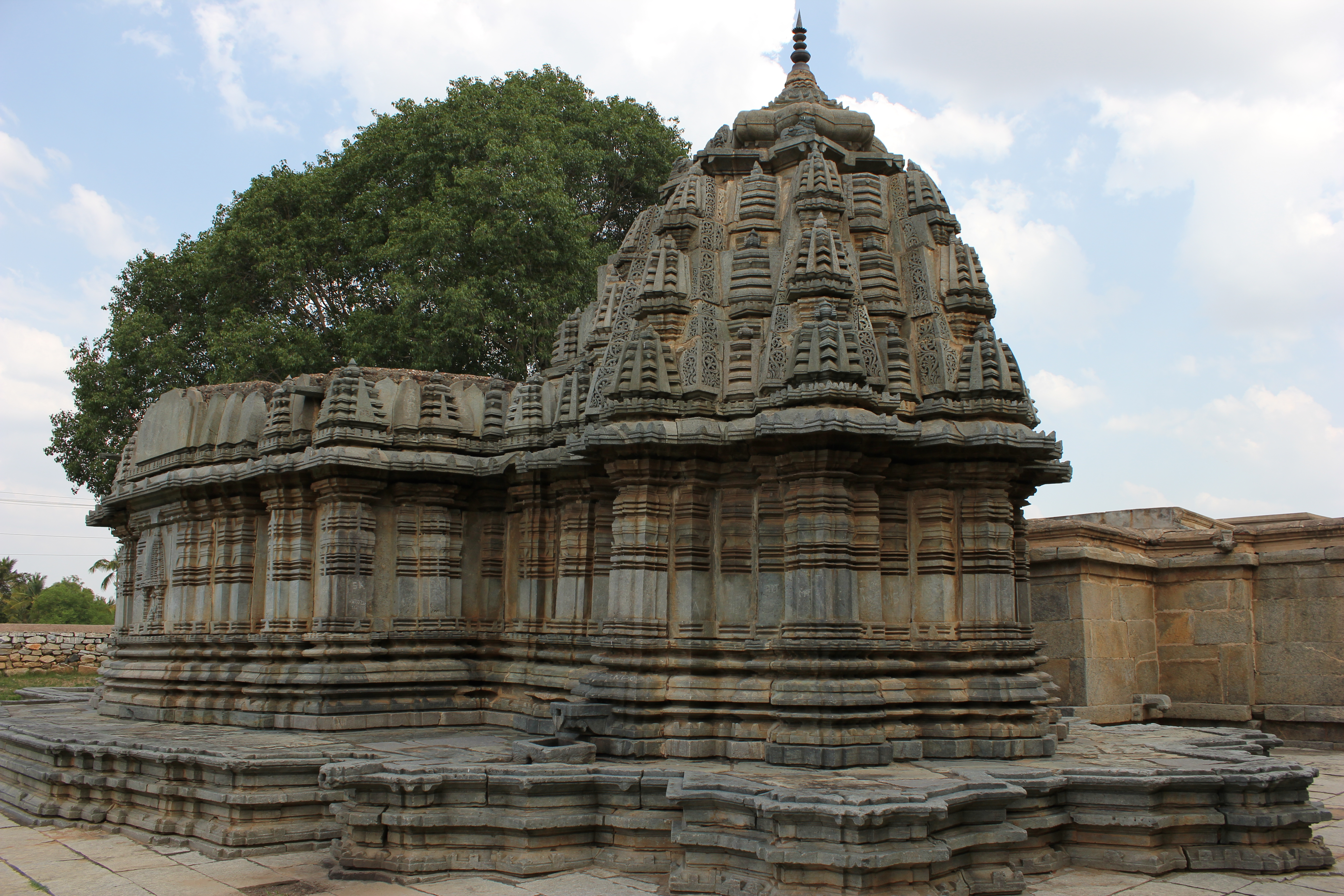 This photo was taken by me (Dinesh Kannambadi) at the Sadashiva temple (Also spelt Sadasiva) in Nuggehalli, Hassan district, Karnataka state, India. It was built in 1249 CE during the rule of the Hoysala Empire King Vira Someshwara.